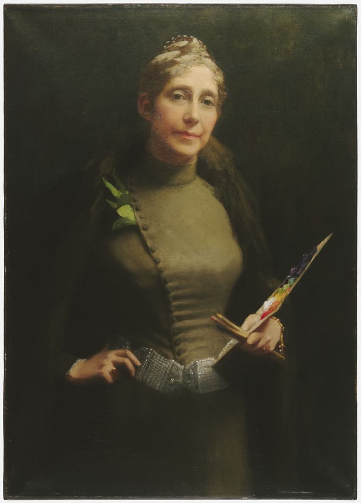 Painting of Sarah Wyman Whitman by artist Helen Bigelow Merriman (1844 - 1933). Date: 1909-1910. See entry in Smithsonian listing [1]